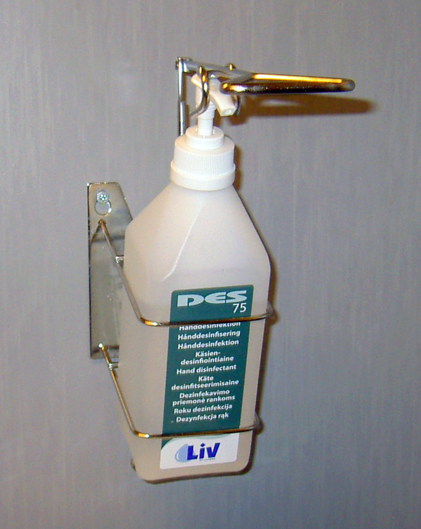 Hand disinfectant at a hospital